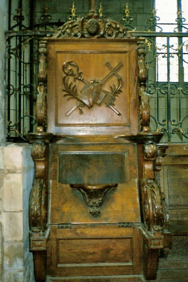 Chair from St Etienne church of Auxerre (Yonne) FRANCE